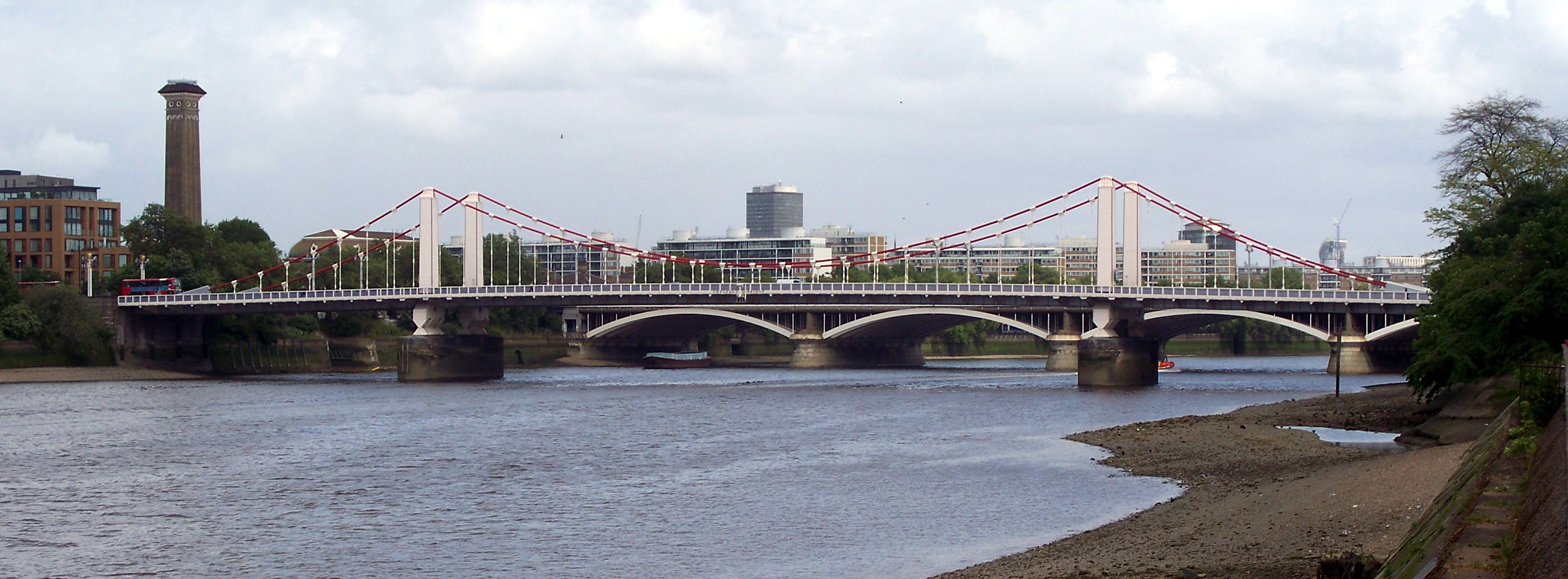 Chelsea Bridge, London. Photograph taken in a public location in the UK of a building on permanent public display, and exempt from copyright under Section 62 of the Copyright Designs & Patents Act 1988 ("it is not an infringement of copyright to film, photograph, broadcast or make a graphic image of a building, sculpture, models for buildings or work of artistic craftsmanship if that work is permanently situated in a public place or in premises open to the public")